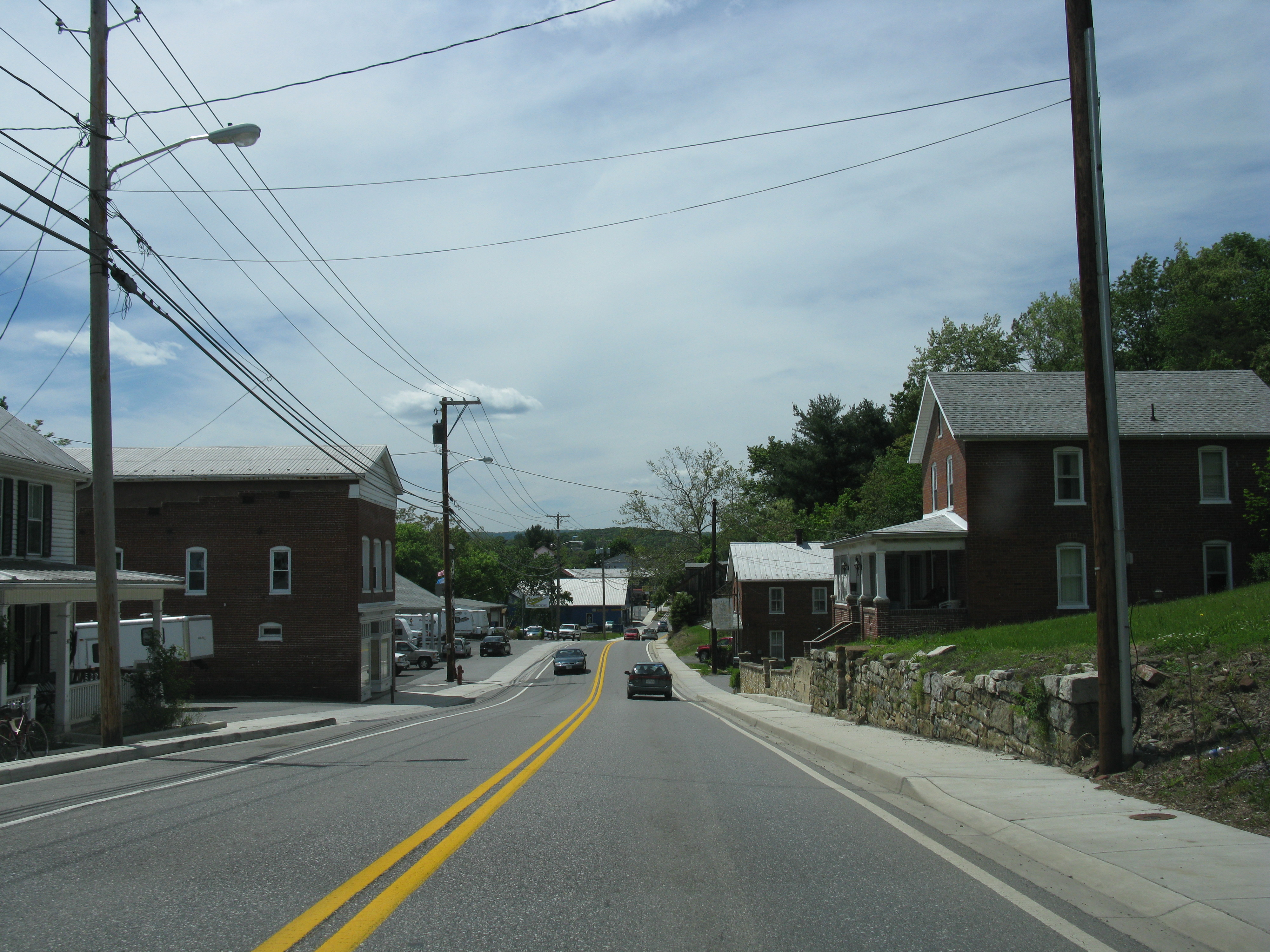 MD 144, Hancock, Maryland